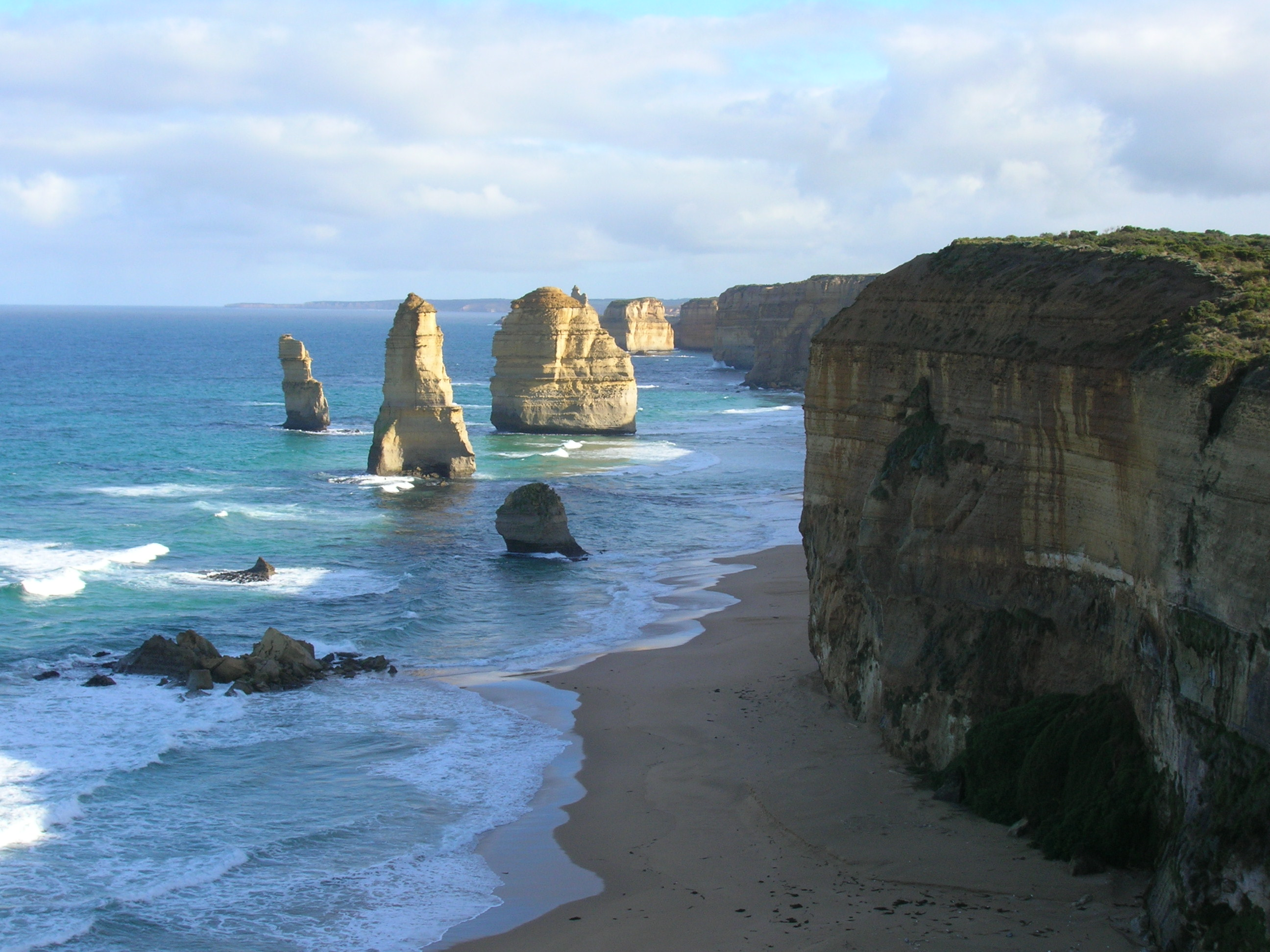 Les 12 apôtres - Great Ocean Road (Victoria)